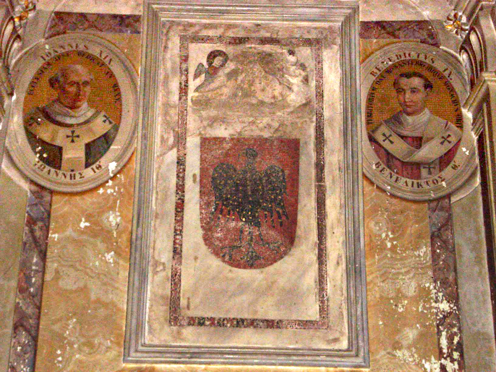 Supposed tomb of Pope Benedict IX